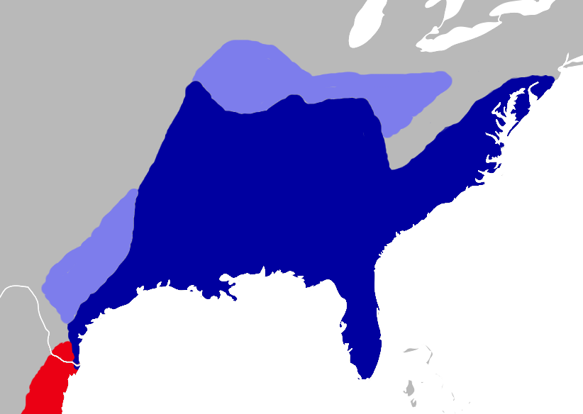 Distribution of the marsh rice rat (Oryzomys palustris) in southeastern North America. A small part of the distribution of Oryzomys couesi is also visible.